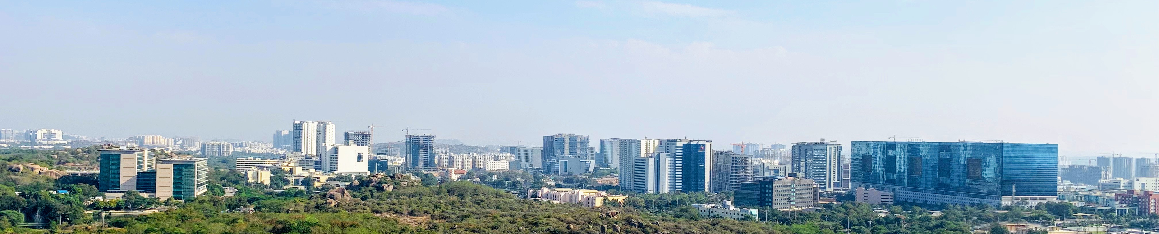 Gachibowli IT & Financial District Skyline View, Dec 2018